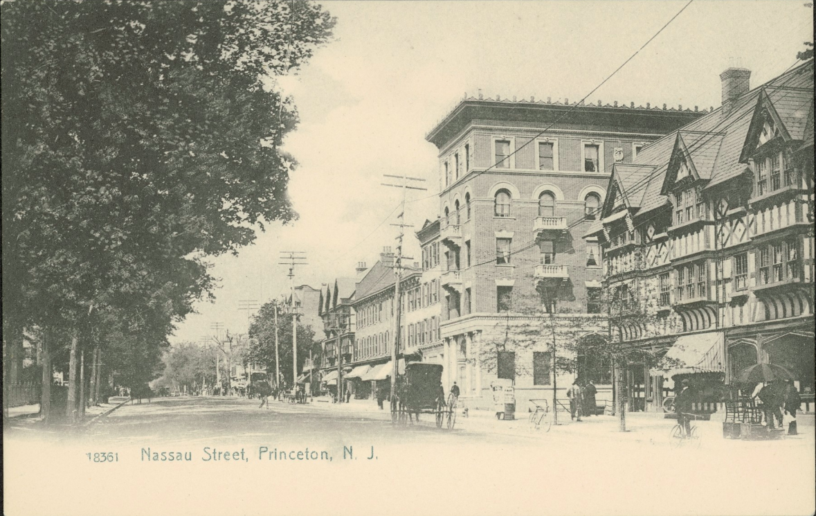 A one-cent postcard of Nassau Street in Princeton, New Jersey